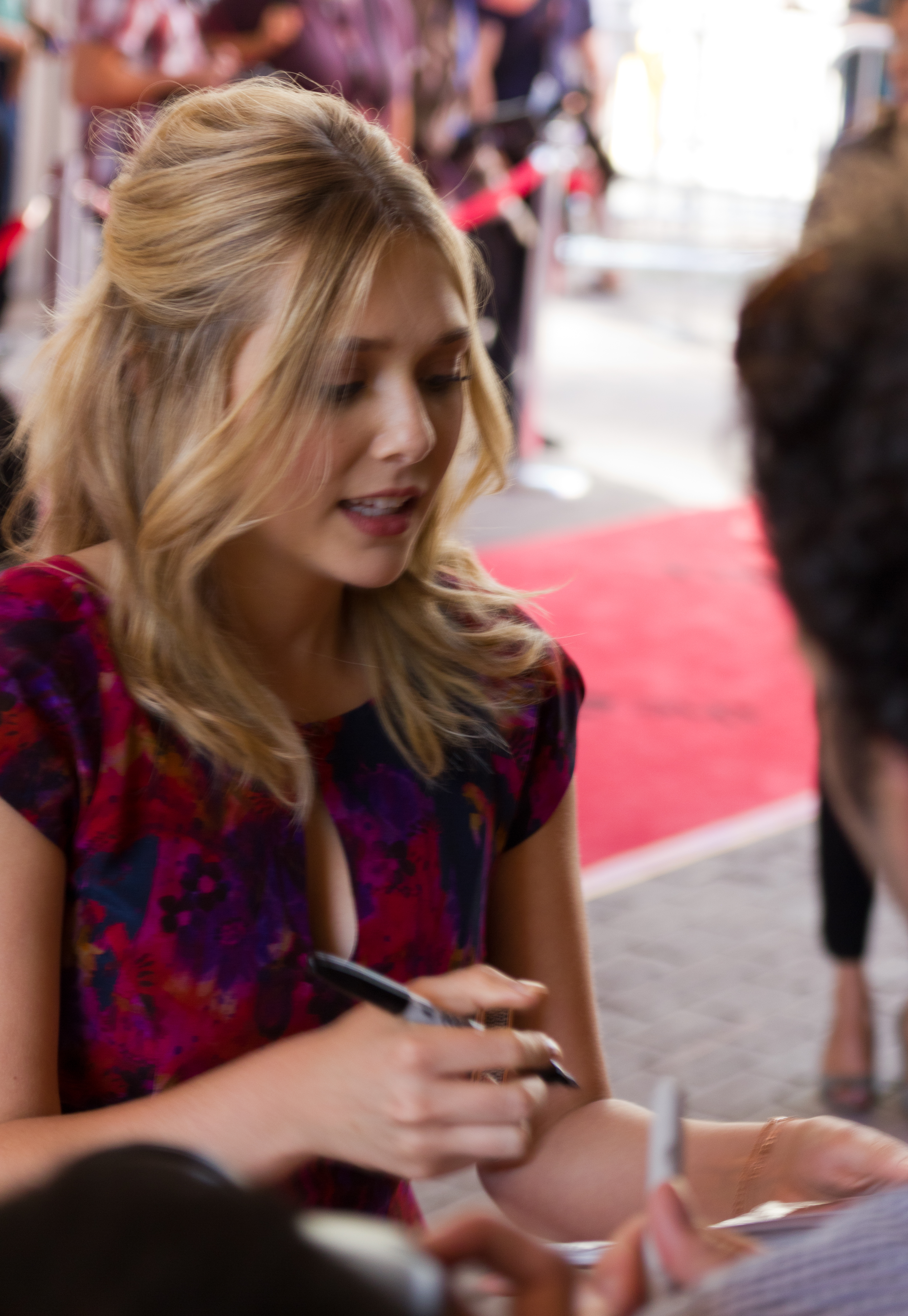 Elizabeth Olsen at the "Martha Marcy May Marlene" premiere.